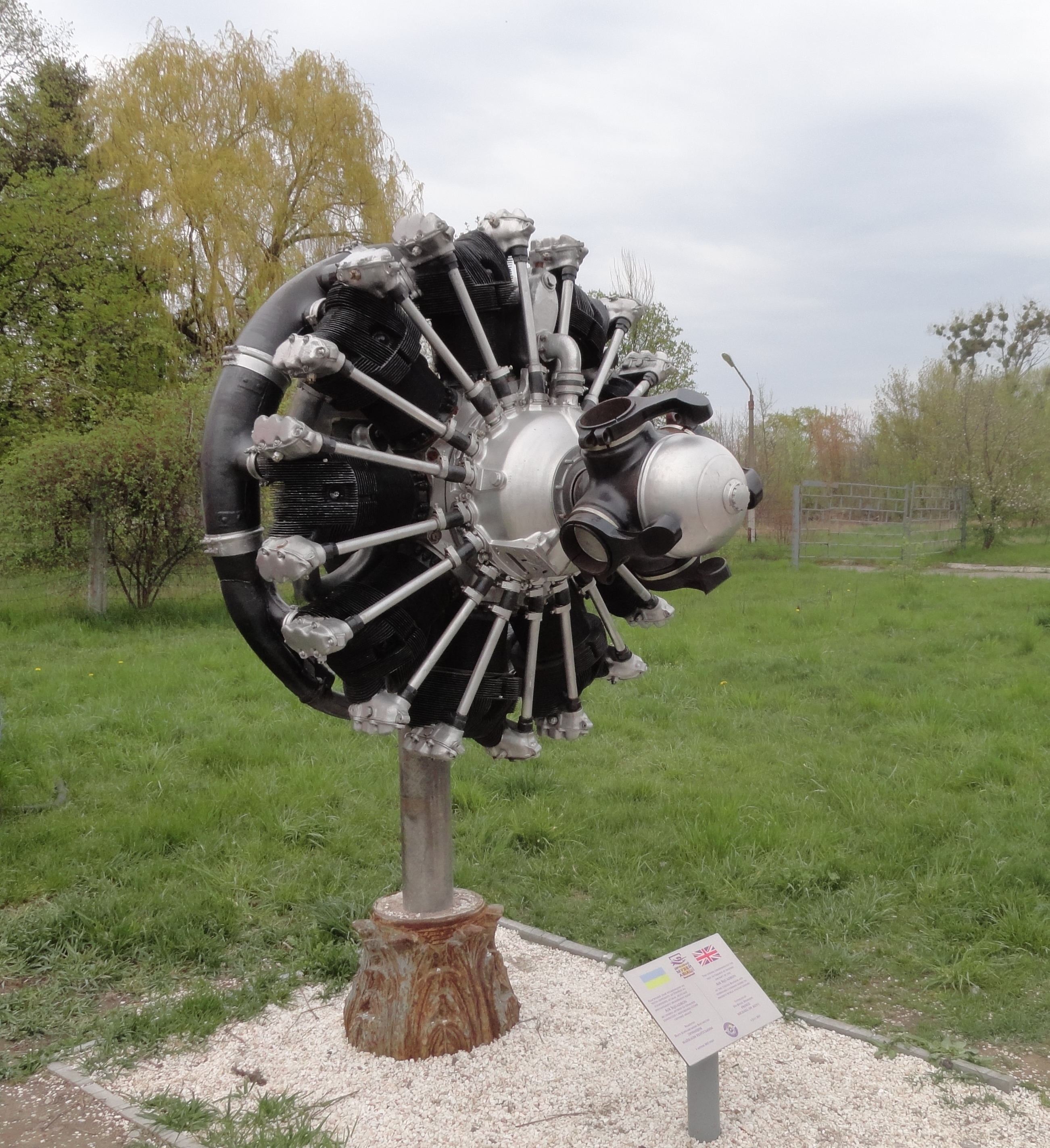 Aircraft engine ASH-62 in the State aviation Museum (Kiev)